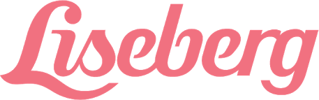 The logo for Liseberg amusement park in Gothenburg, Sweden.